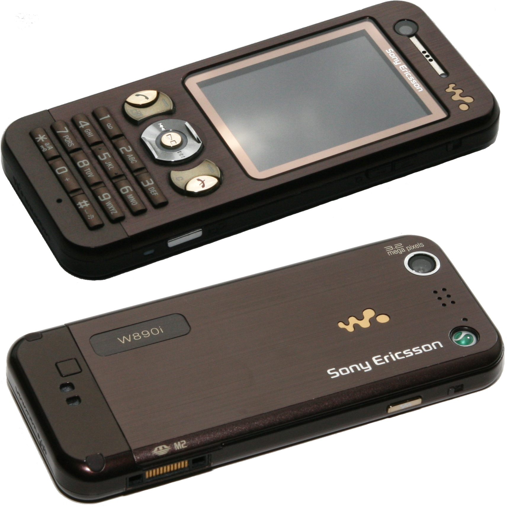 Front and back views of the Sony Ericsson W890i mobile phone in the color named Mocha Brown.